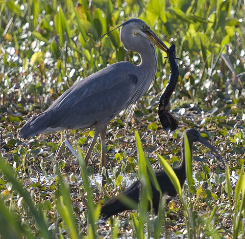 Blue Heron and two toed amphiuma